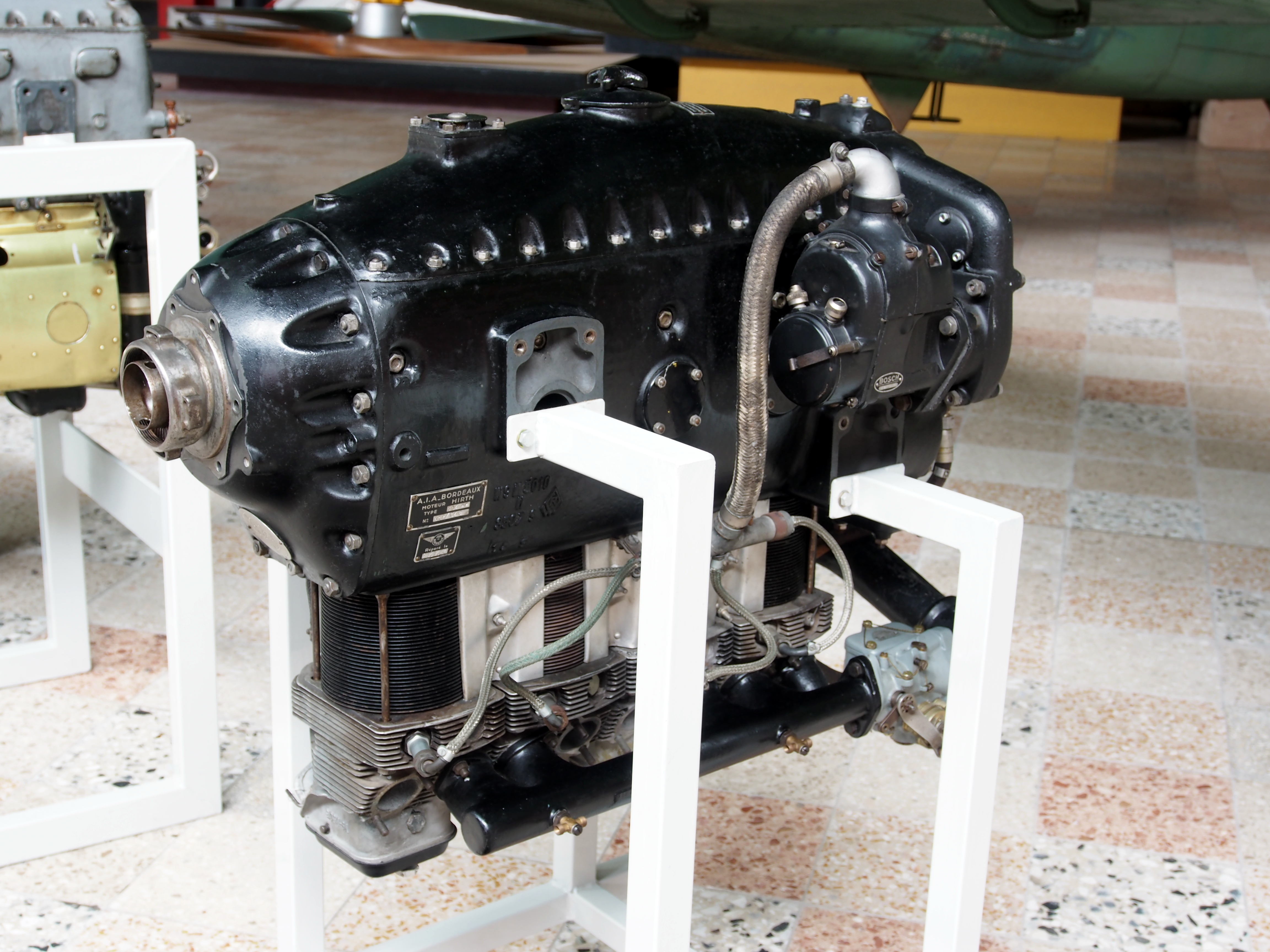 Photographed at Flugausstellung L.+P. Junior, Hermeskeil, Germany.